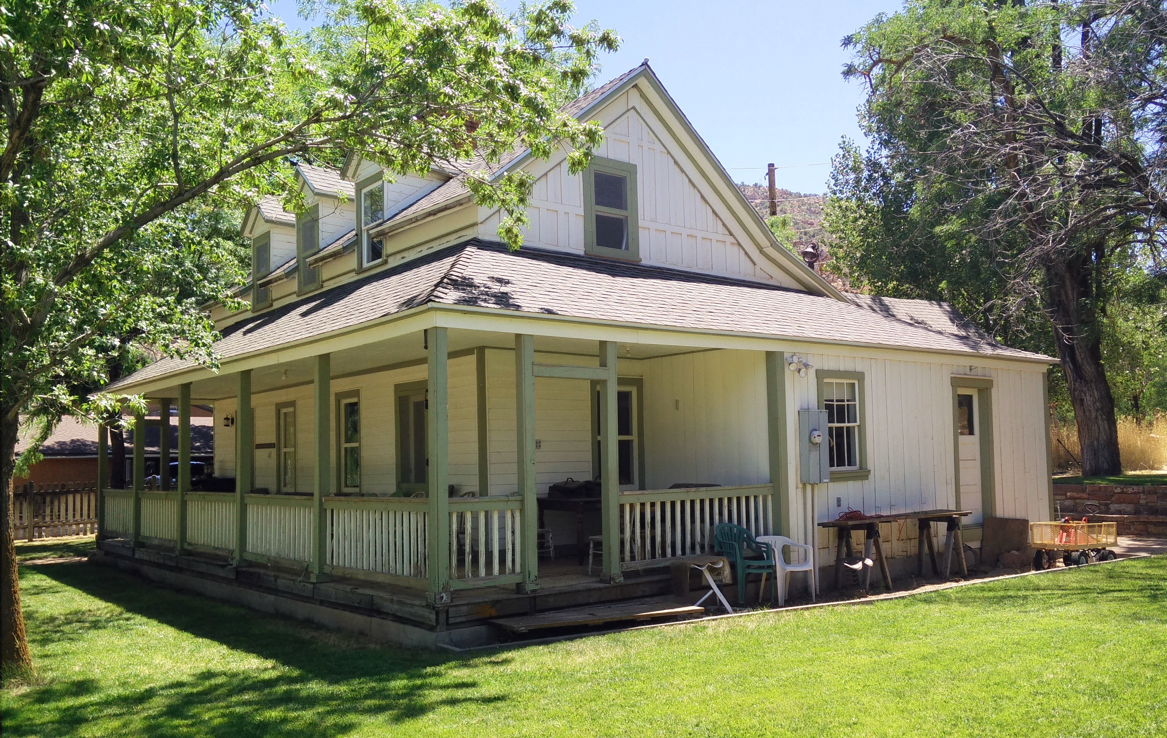 The Big House, Moccasin, AZ (2016 photo)